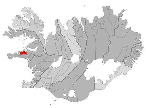 Based on Municipalities of Iceland.png.